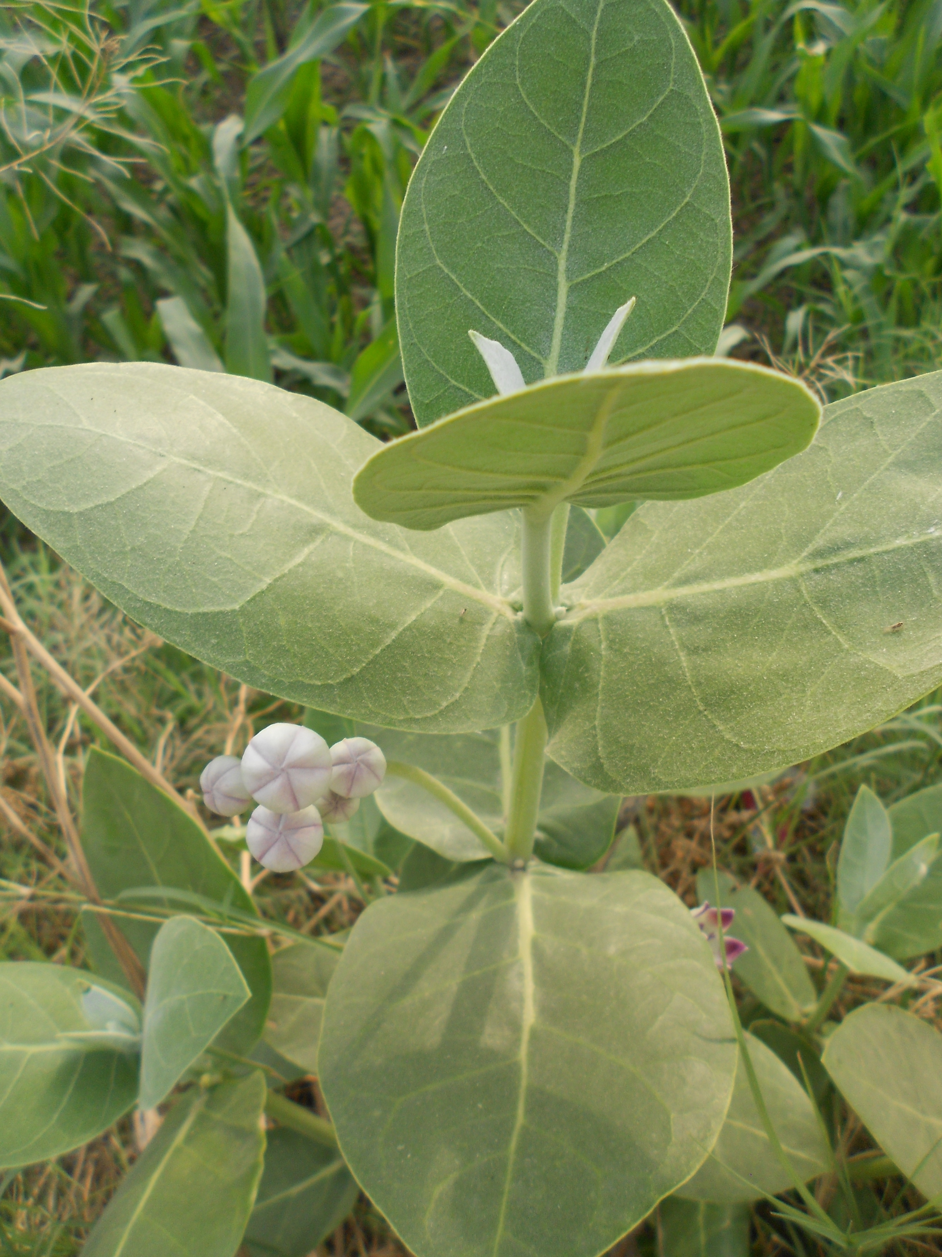 Calotropis procera